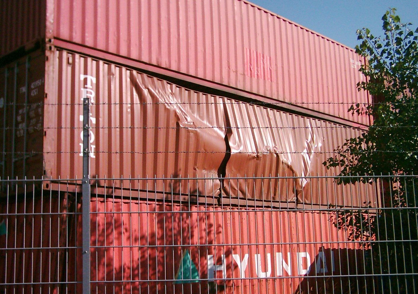 Damaged Container.